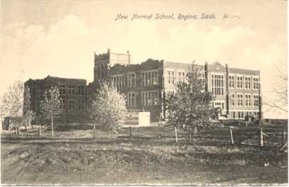 Normal School Regina Saskatchewan 1914.The Normal School was once the home of the Provincial Museum of Natural History. The displays were moved there from the Legislature, where some of the items had been damaged by the 1912 tornado that struck the city.